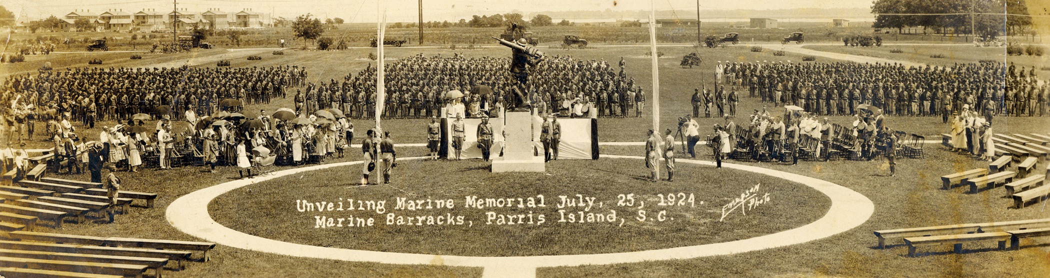 Unveiling Marine Memorial July, 25, 1924. Marine Barracks, Parris Island, S.C.